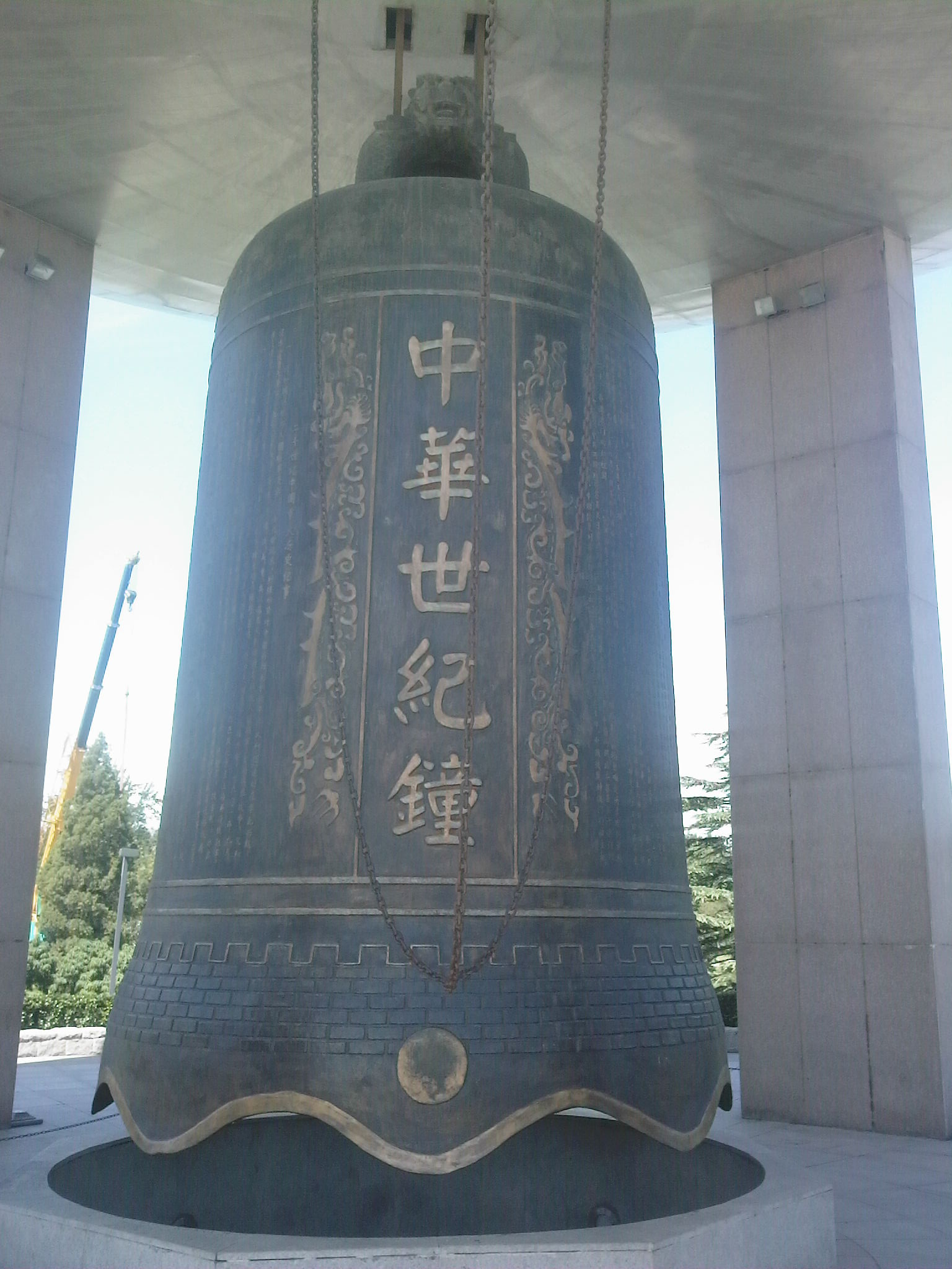 China Millennium Bell, Beijing